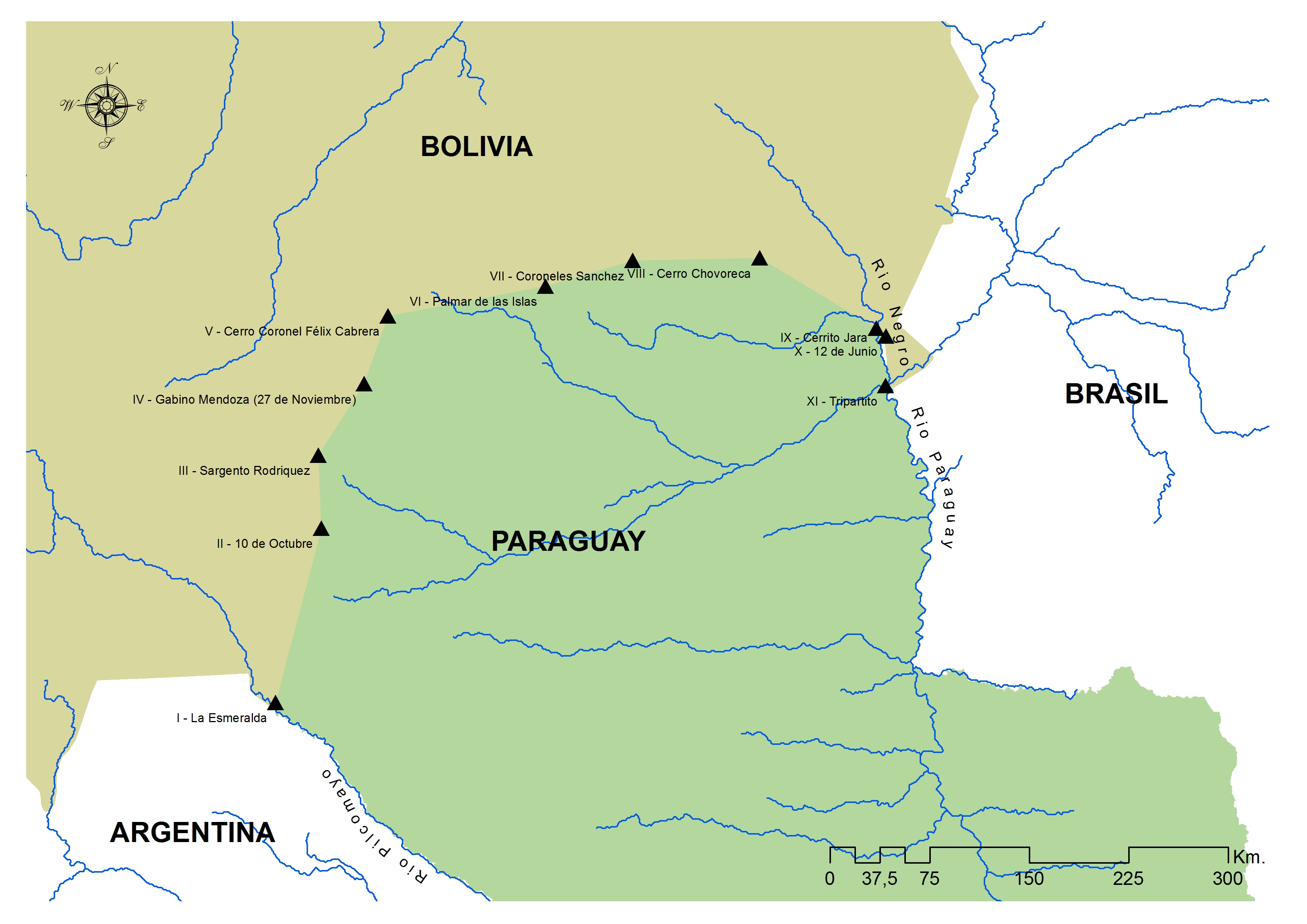 Mapa de distribucion de los Hitos principales Entre Paraguay y Bolivia